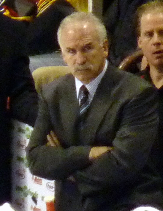 Chicago Blackhawks coach Joel Quenneville in a game against the Vancouver Canucks at GM Place on November 22, 2009.